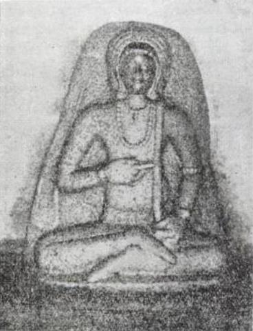 Nanda, Tirupunkur temple